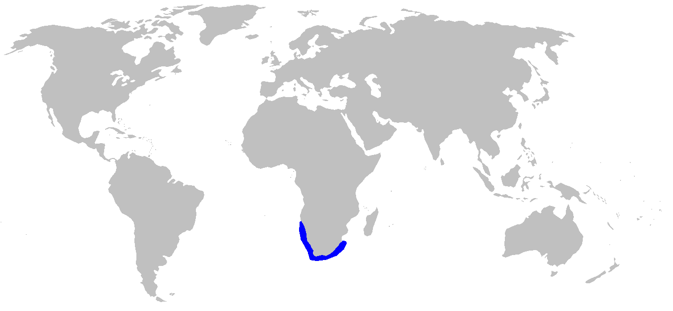 Distribution map for Scyliorhinus capensis